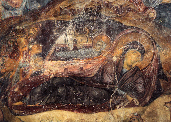 Nativity (fresco in monastery of Latomou)